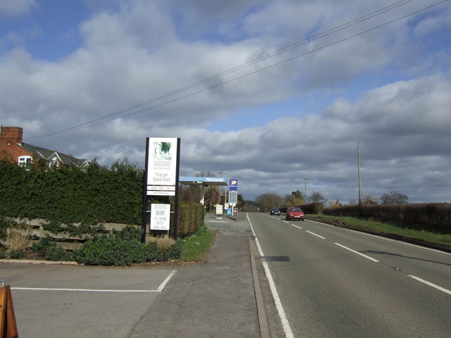 A465 at Wormbridge Looking north-east towards Hereford, the signs are for the Galanthus (snowdrop) gallery and cafe, and a petrol station.